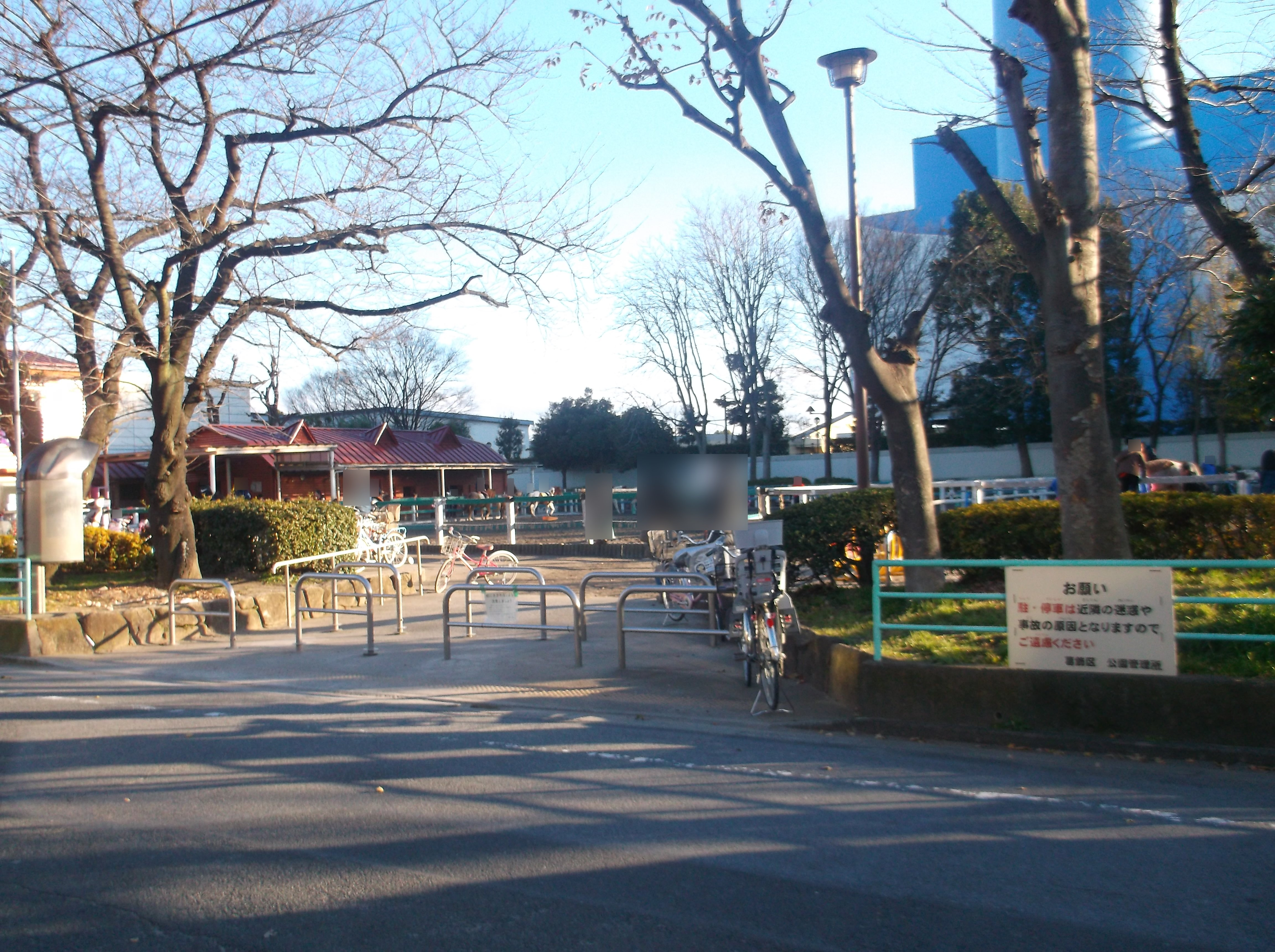 A photo of an entrance of Mizumoto Chuo Park(Pony School Katsushika)Mizumoto,Katsushika-ku,Tokyo,Japan.